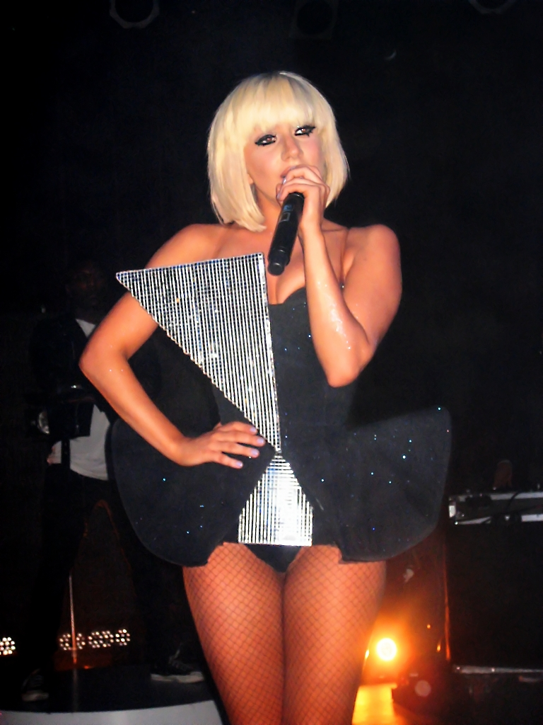 Lady Gaga performing "Beautiful, Dirty, Rich" on the Fame Ball tour. A young blond woman, her hair is in a bob cut; She is wearing a black short dress shaped like a tutu. Over her right breast, a silver-colored triangular piece is set. She has placed her right hand on her waist and holds a microphone with her left hand to her mouth. Behind her, a small platform is visible where a man stands.